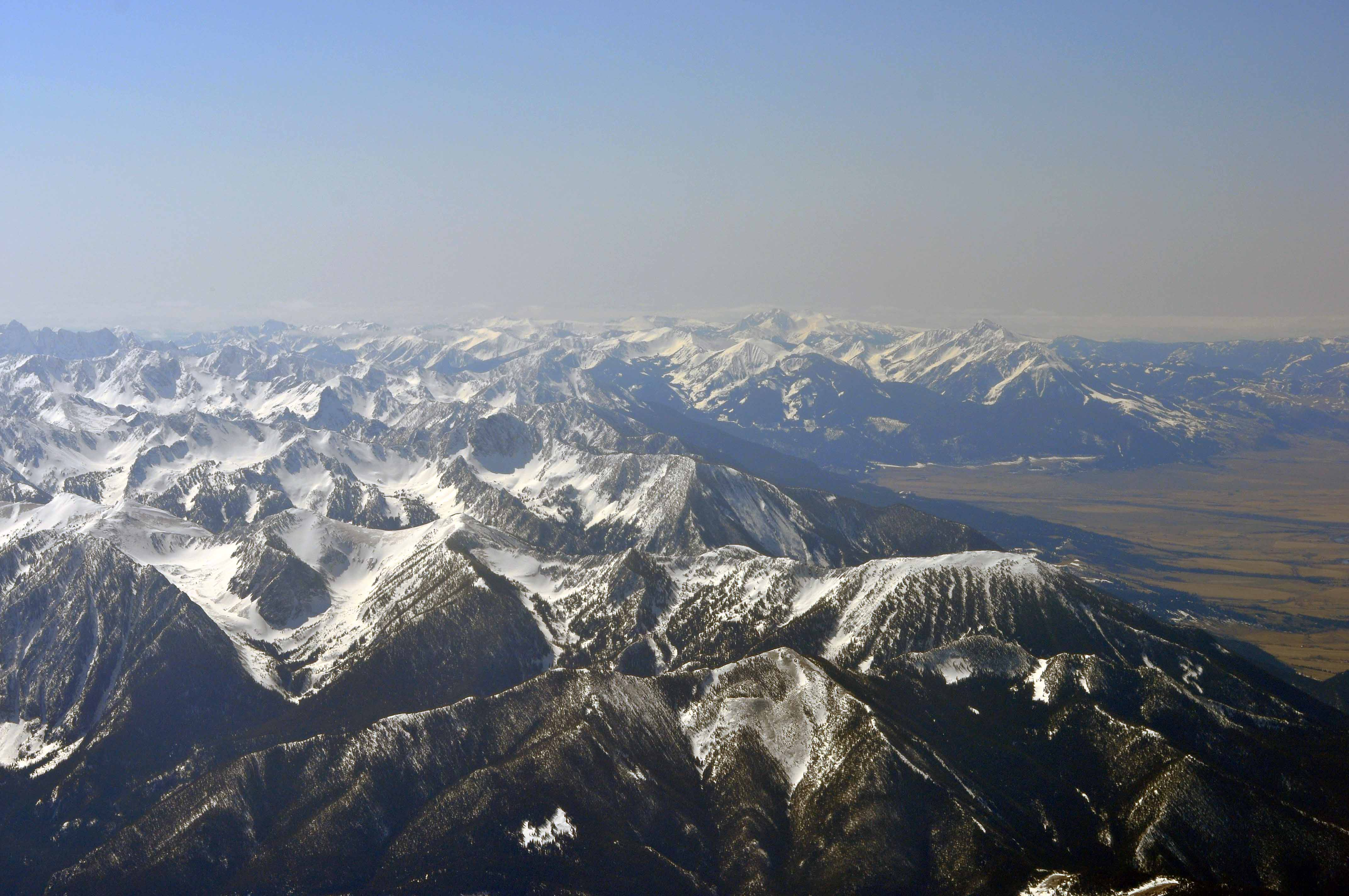 Northwestern expanse of Absaroka Mountains near Livingston, Montana March 2010